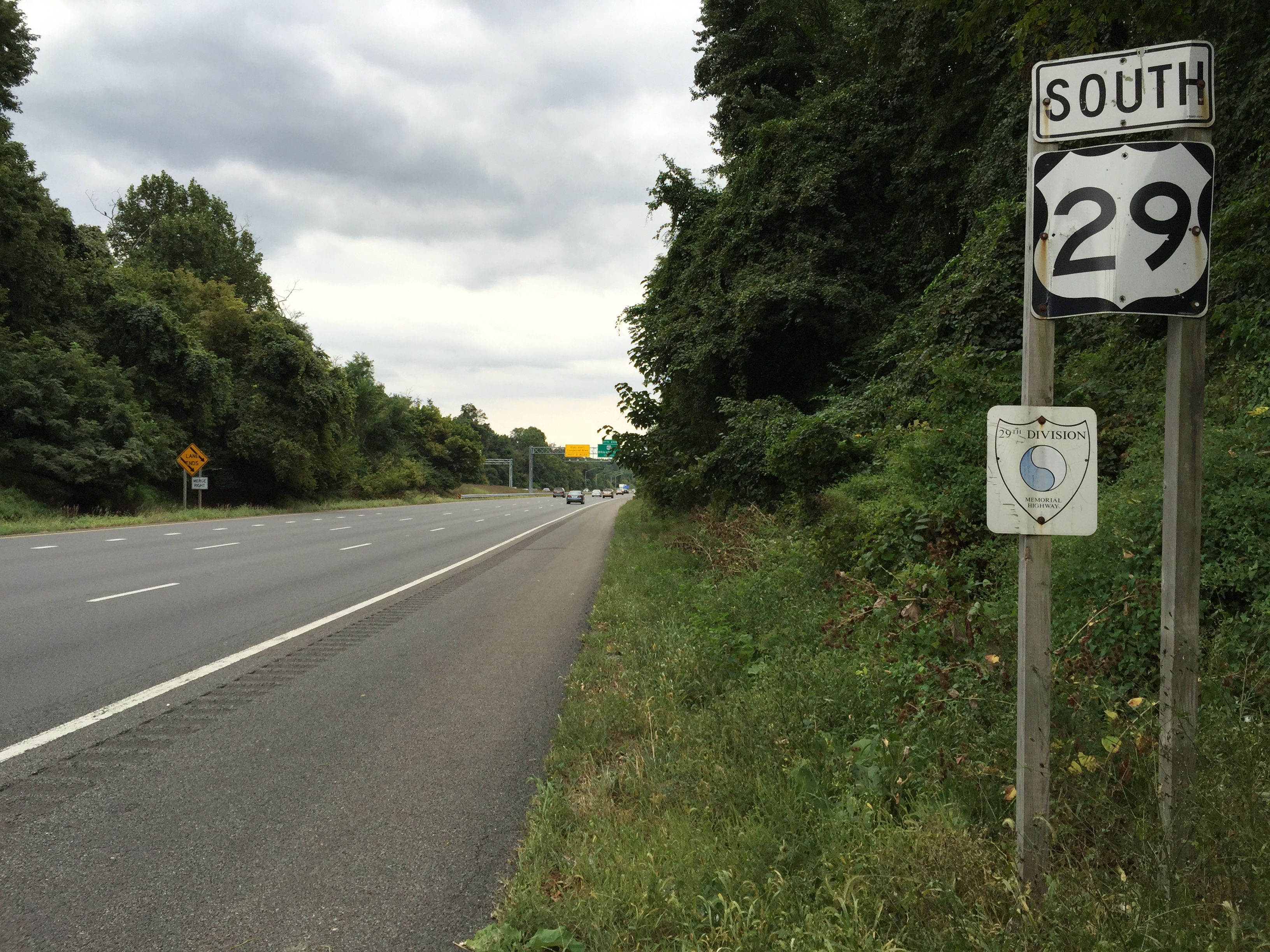 View south along U.S. Route 29 (Columbia Pike) between Interstate 70 and U.S. Route 40 (Baltimore National Pike) in Ellicott City, Howard County, Maryland